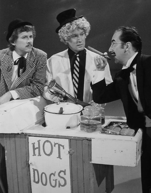 Publicity photo of Dick Smothers (Chico), Tom Smothers (Harpo), and Bobby Darin (Groucho) on the short-lived Dean Martin Presents: The Bobby Darin Amusement Company (1972)